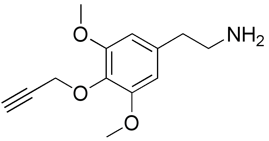 Chemical structure of Propynyl, drawn in ChemDraw by User:Mark PEA. Originally uploaded as :image:Propynyl.png, moved by Rifleman 82 (talk) on 15:45, 23 May 2008 (UTC) due to misleading file name.